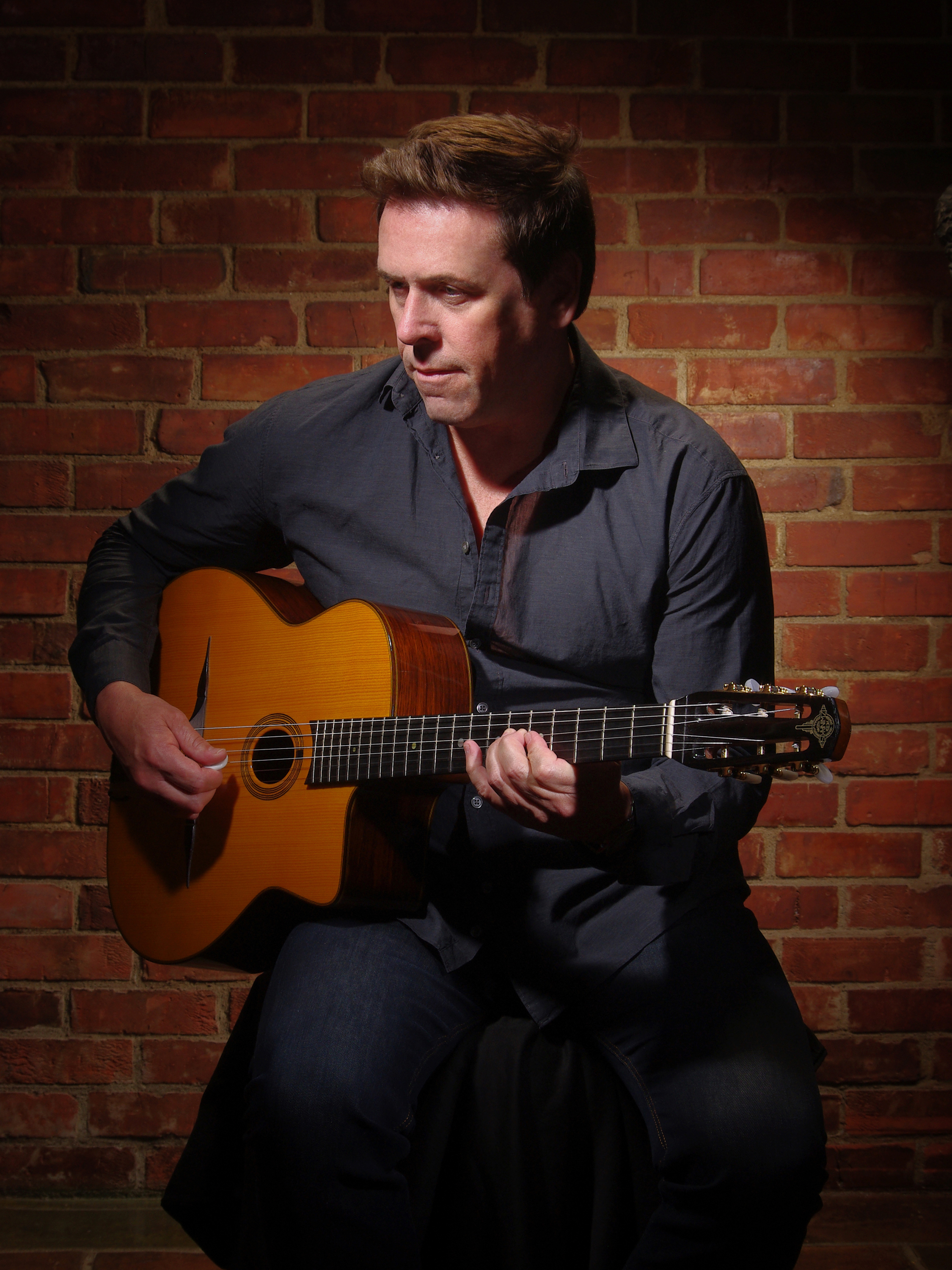 George Cole: guitarist, vocalist, composer, lyricist, band leader, music educator